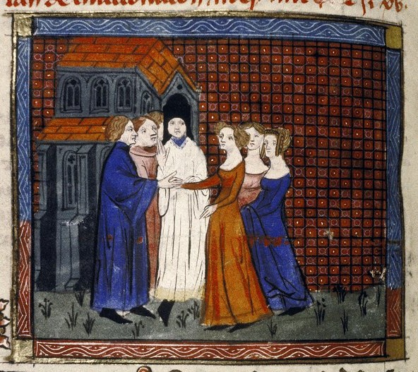 Wedding of Louis X of France and Clemance Hongrie (1315)